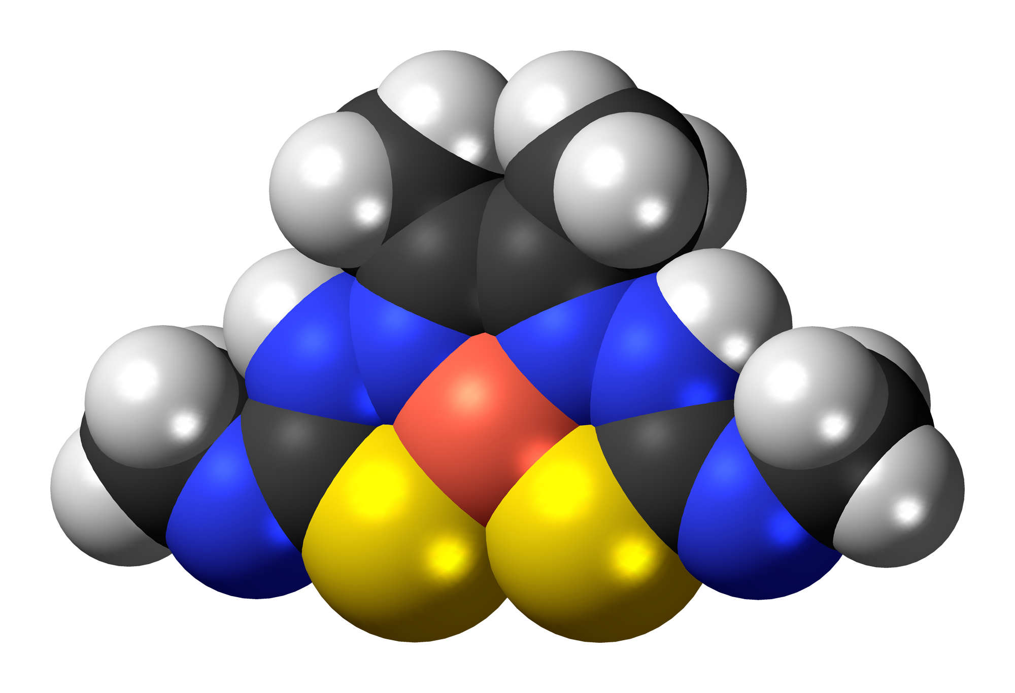 Space-filling model of the copper (II) diacetyl-di(N(4)-methylthiosemicarbazone) complex, also known as copper ATSM, a compound used to deliver radioactive copper-64 for cancer therapy. Colour code: Carbon, C: black Hydrogen, H: white Nitrogen, N: blue Sulfur, S: yellow Pink-orange: Copper, Cu